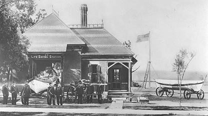 Source: NU150: Extracurriculars, dated c.1890